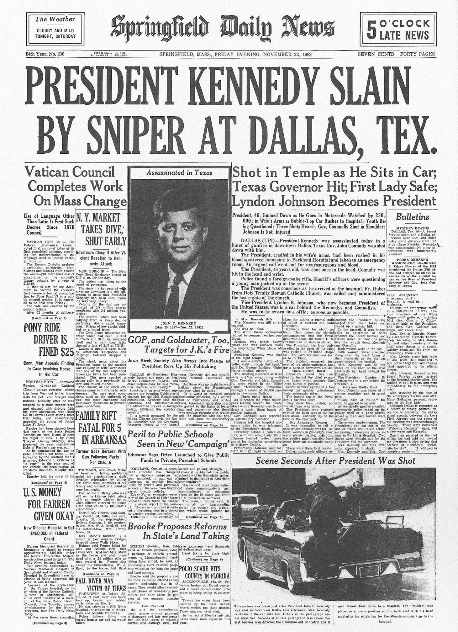 Front page of a late edition of the Springfield Daily News on November 22, 1963, the day John F. Kennedy was assassinated.